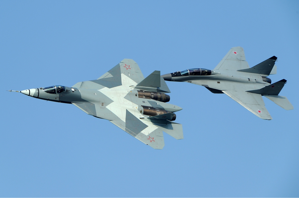 Russian Air Force Sukhoi T-50